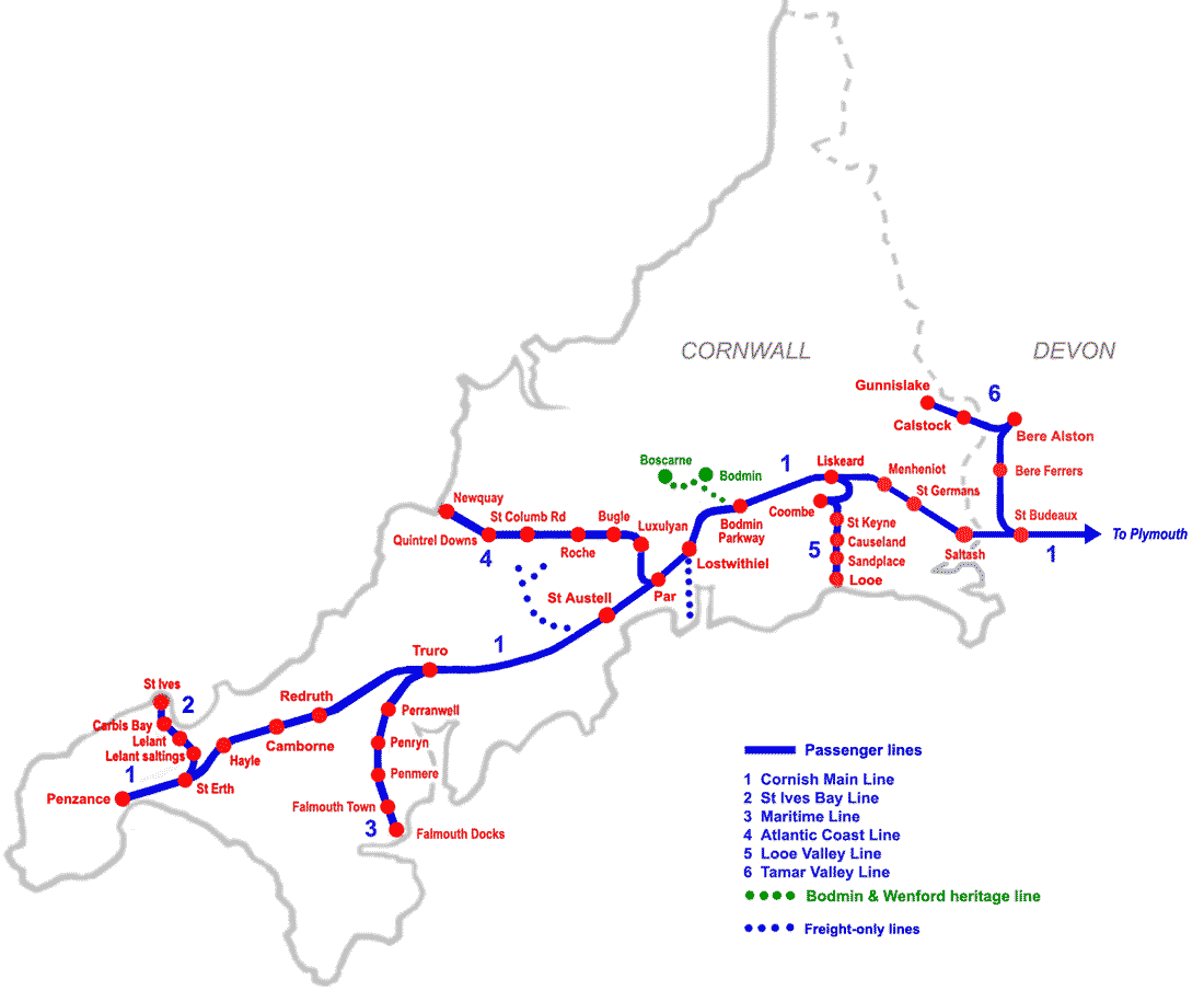 A map of the railways of Cornwall as of 2008